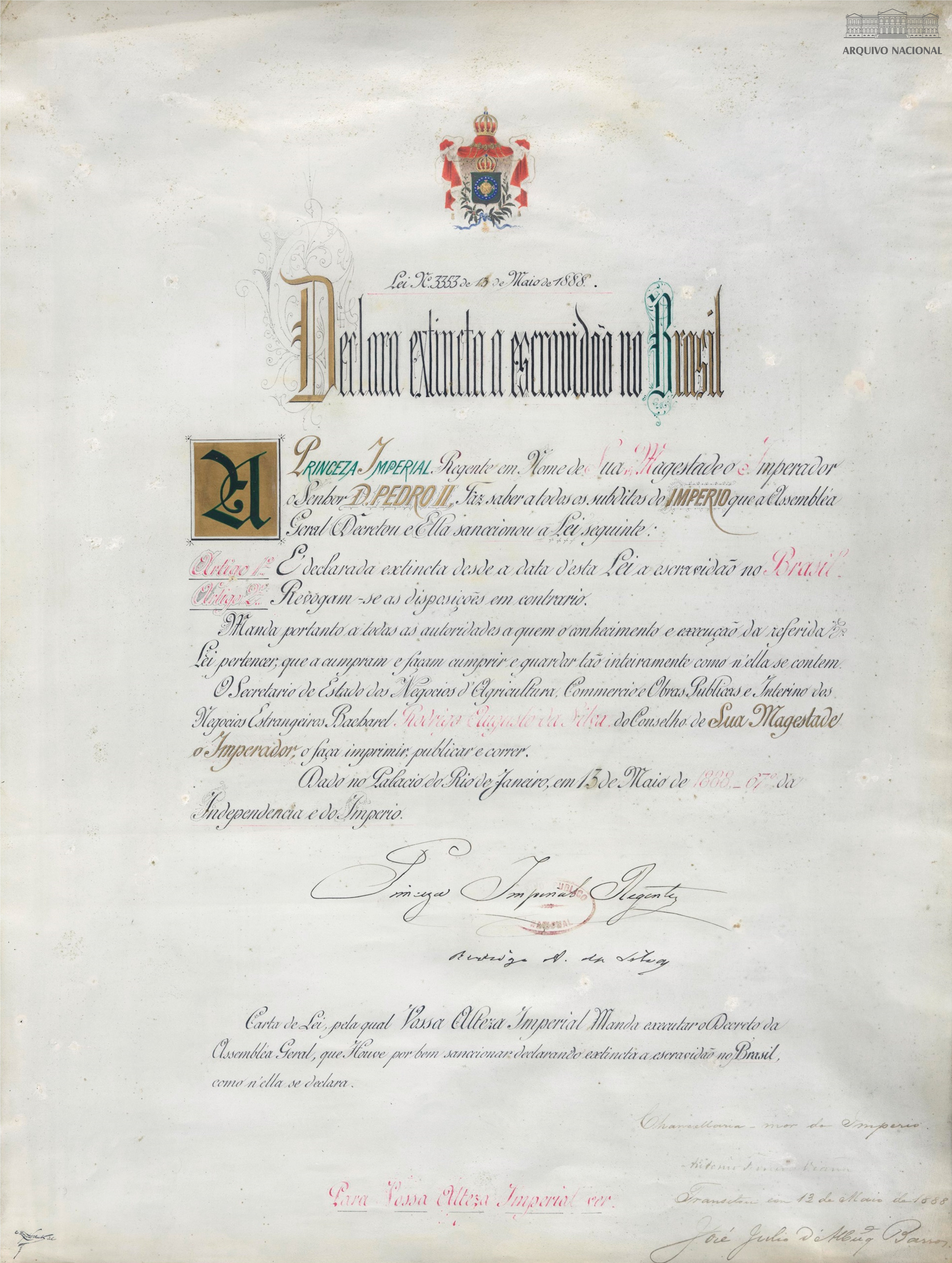 Lei Áurea, 1888. Arquivo Nacional.